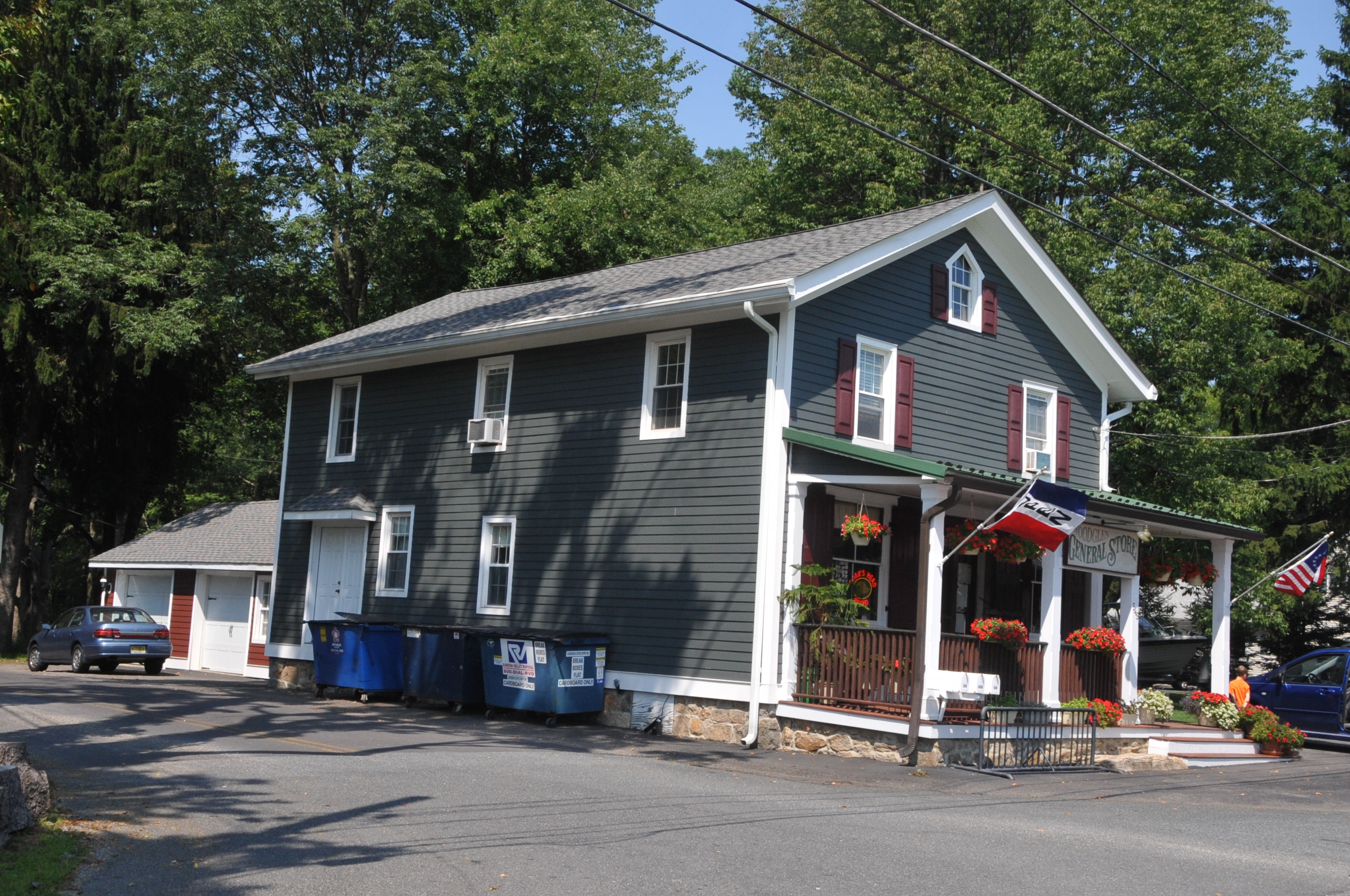 OPENED HERE IN THE MID-1800’S IN WHAT WAS THEN KNOWN AS WHITEHALL, AND LATER AS IRON DALE, AND FINALLY AS WOODGLEN. IT IS TYPICAL OF NEW JERSEY RURAL STORE AND ONE OF THE FEW STILL LEFT IN BUSINESS